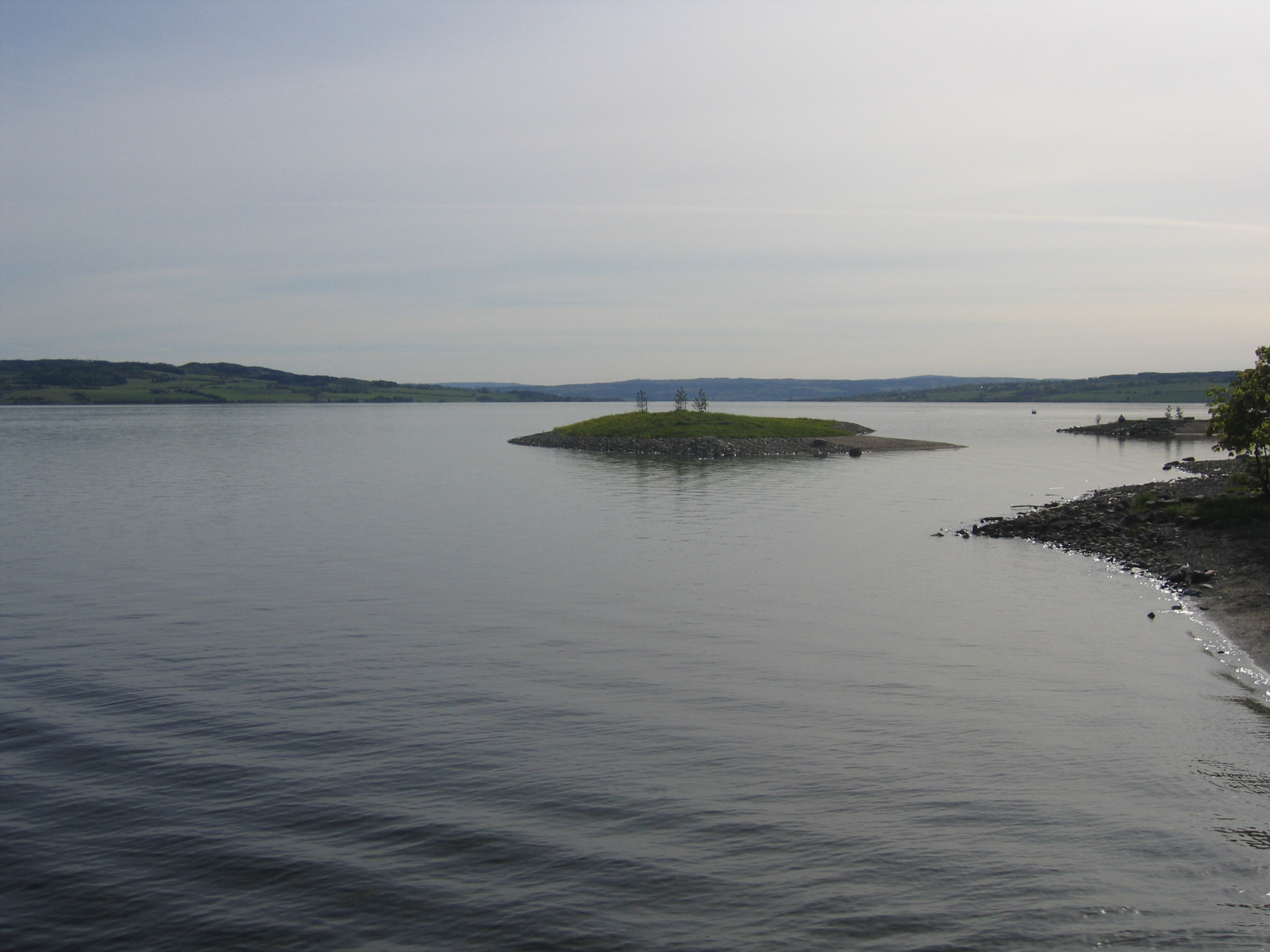 Lake Mjoesa, view from the pier in Hamar, Norway.